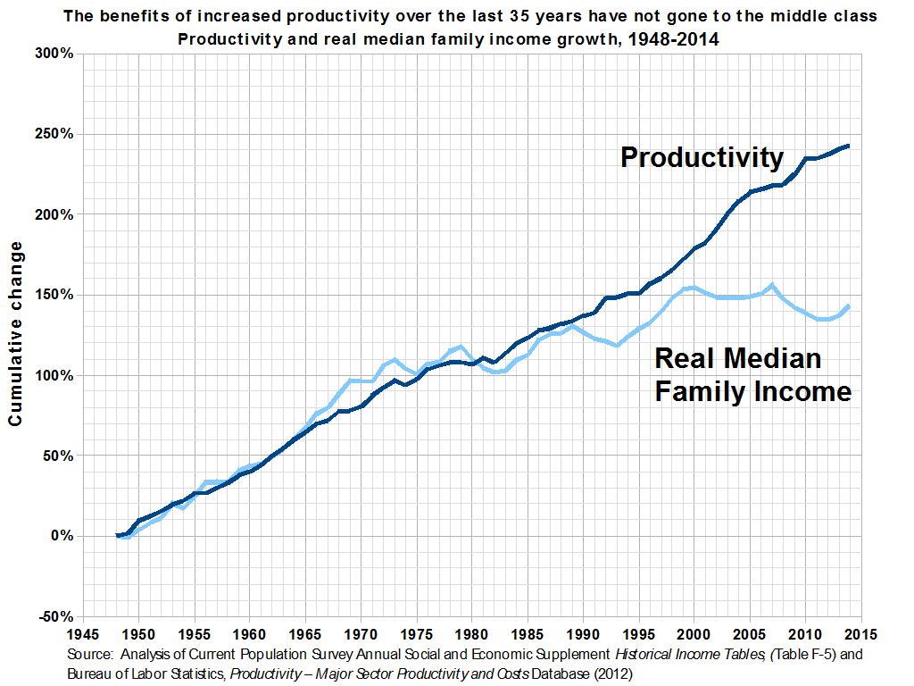 Productivity and real median family income growth, 1948–2014. Based on the table "Productivity and real median family income growth, 1948-2013" by the Economic Policy Institute[1] This chart may be updated annually, as new data becomes available.